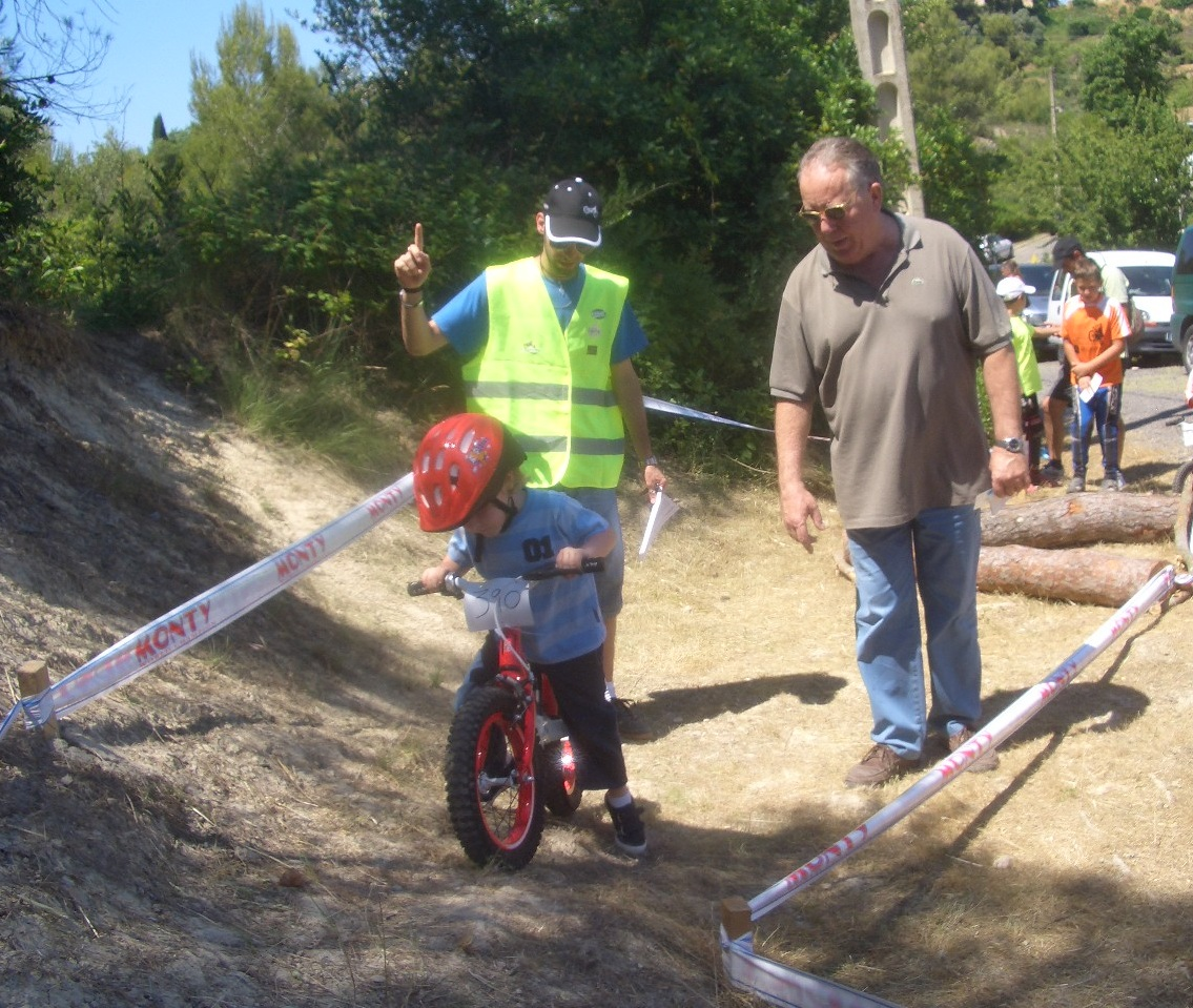 Push-BikeTrial event held in in Catalonia (2012)